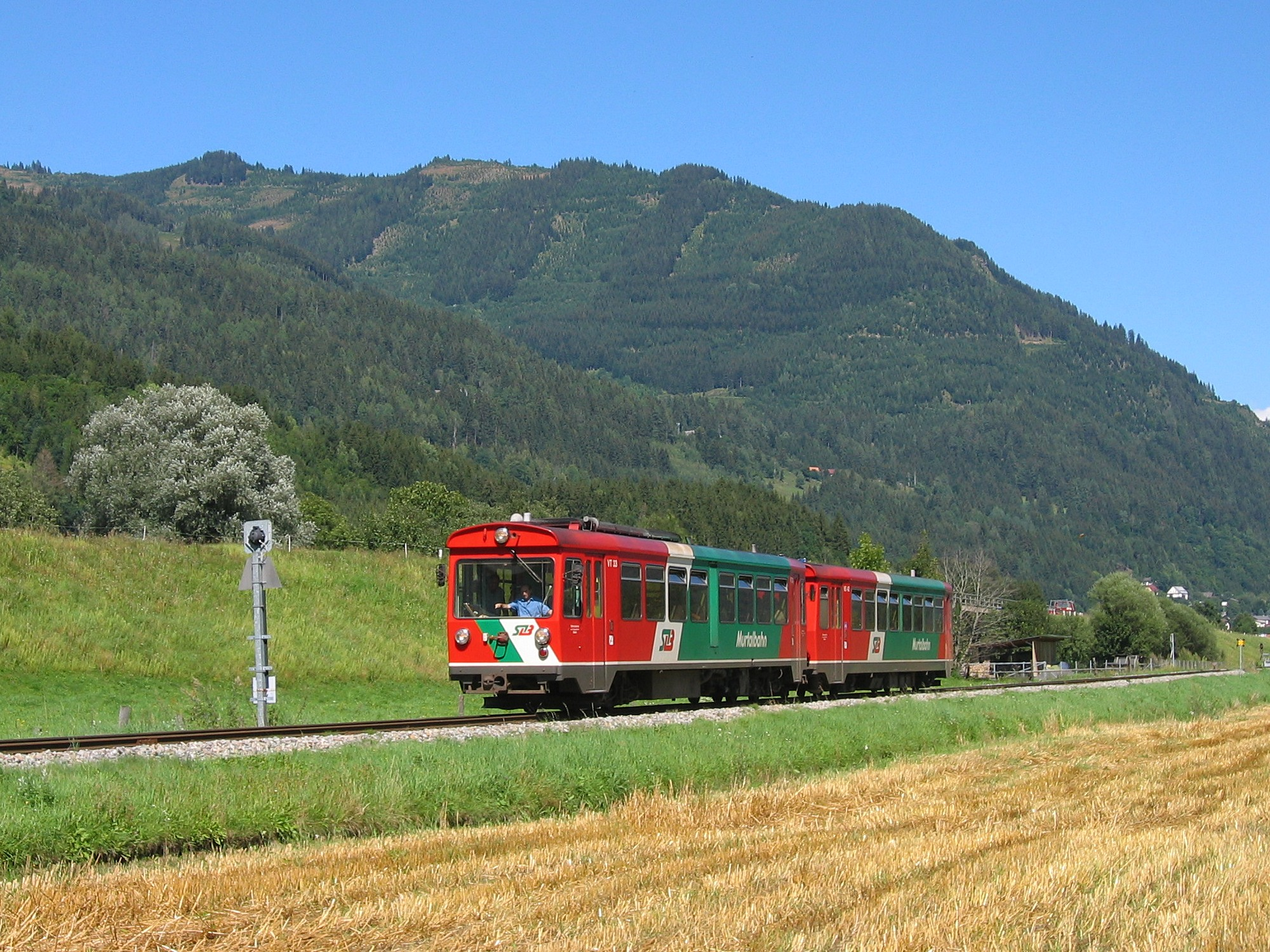 Steiermärkische Landesbahnen (StLB) VT32 railcar with steering car on the Murtalbahn